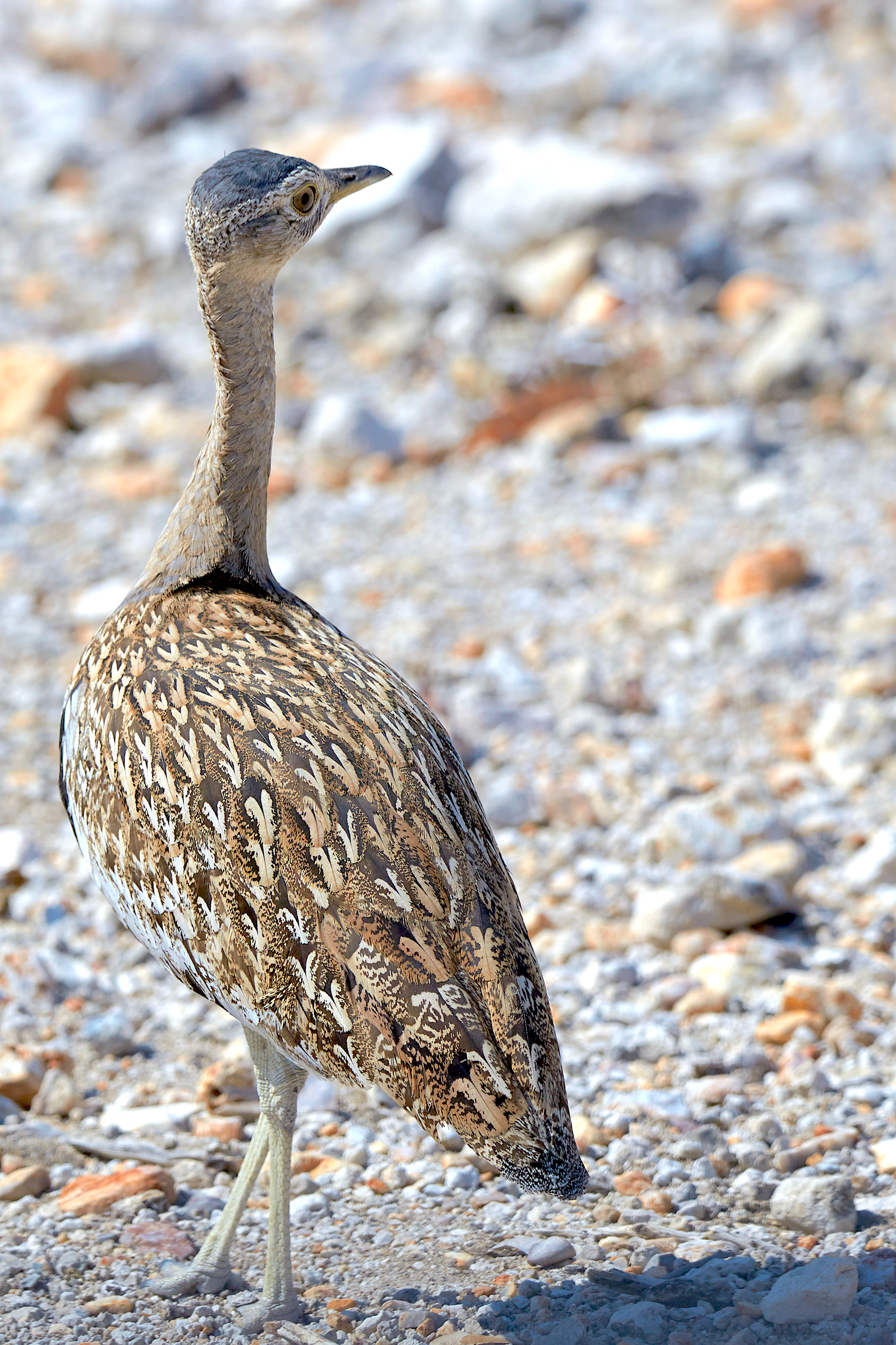 Red-Crested Korhaan (lophotis ruficrista) near Okaukuejo in Etosha